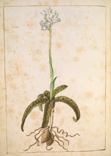 Gherardo Cibo, Herbal, BL MS. Add. 22332 f 173v Orchis provincialis